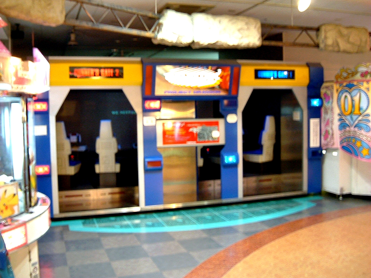 Galaxian3 cabinet, taken by User:RadioActive date 2006/02/07.